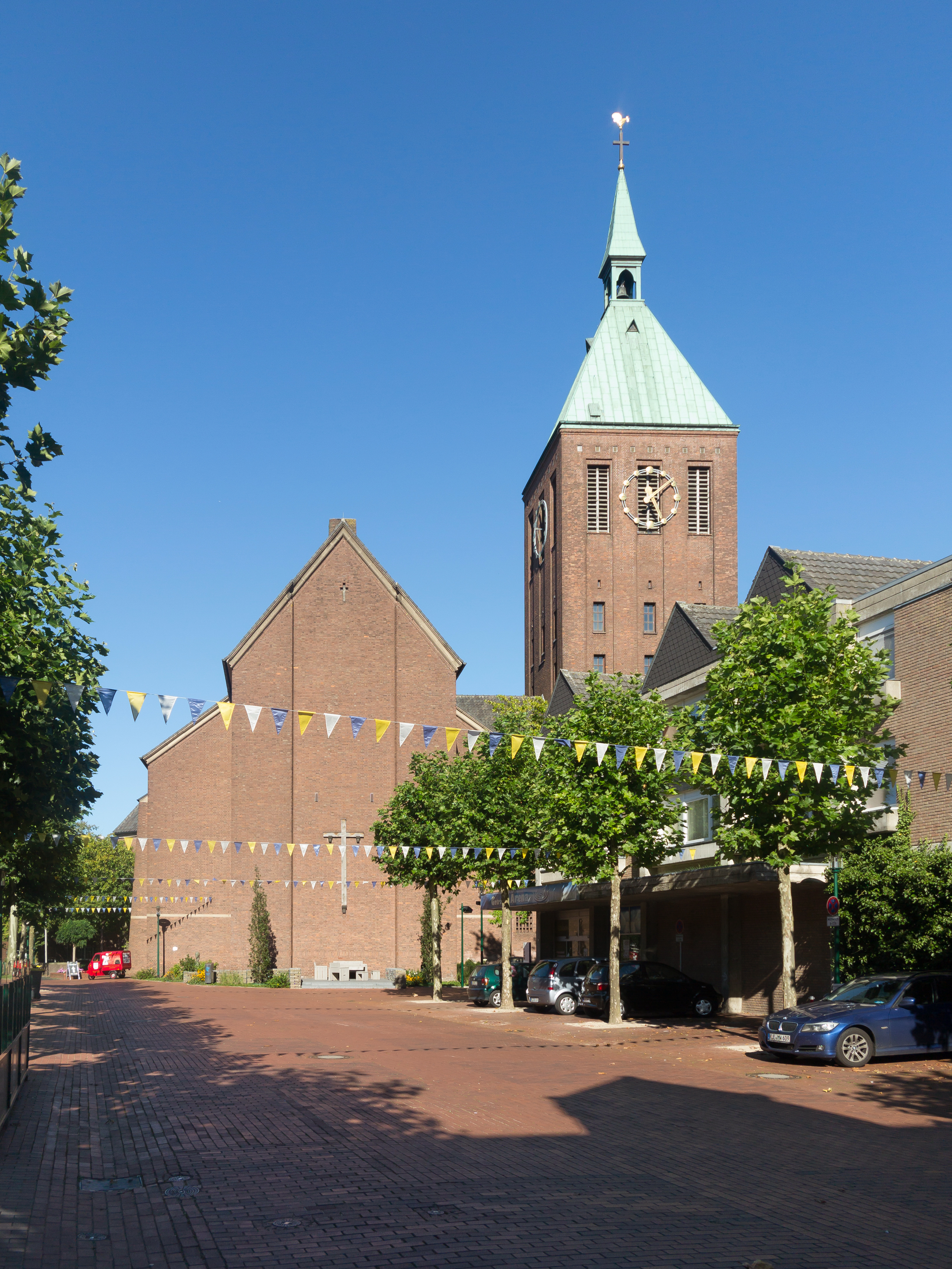 Weeze, catholic church - Pfarrkirche Sankt CyriakusThis is a photograph of an architectural monument., no. 8